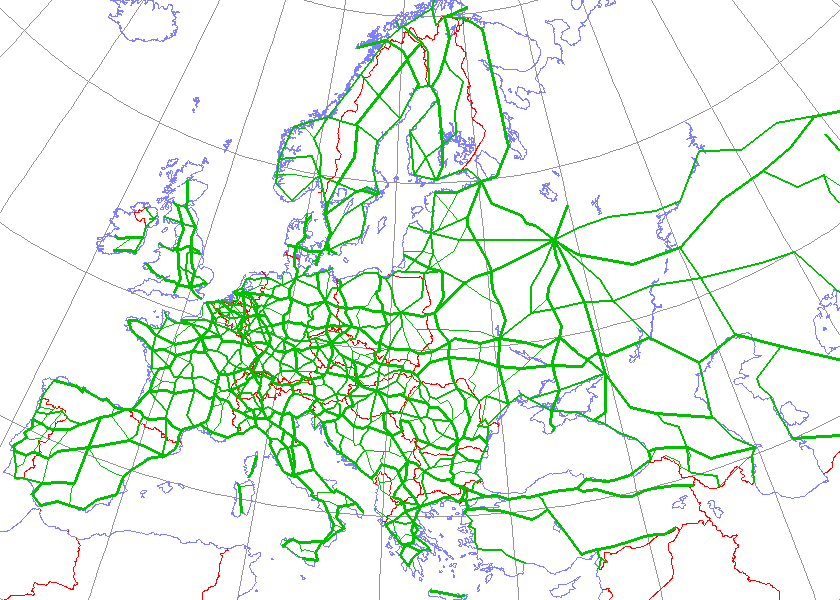 Map generated using coastline/boundary data from World Data Bank, and locations from Straight lines connect control cities, no attempt to follow the real road. Roads color has been changed to green.